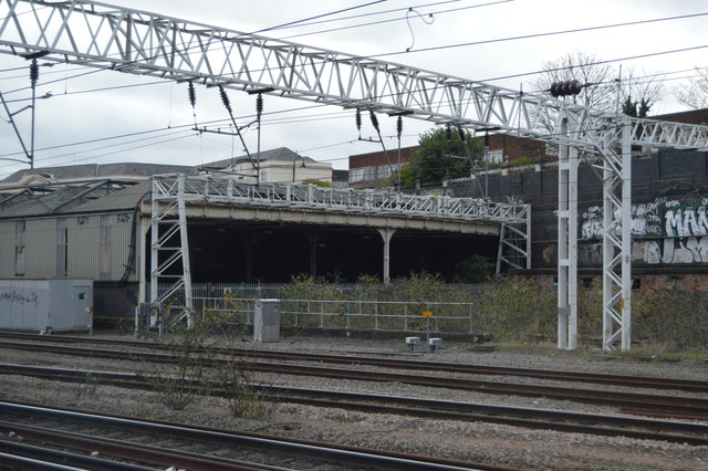 Engine Shed